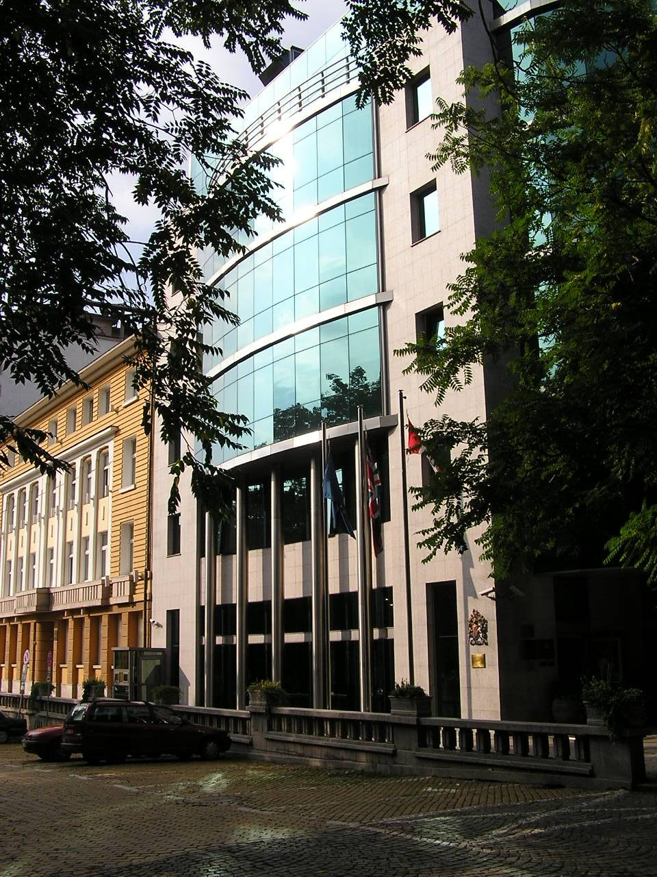 British Embassy